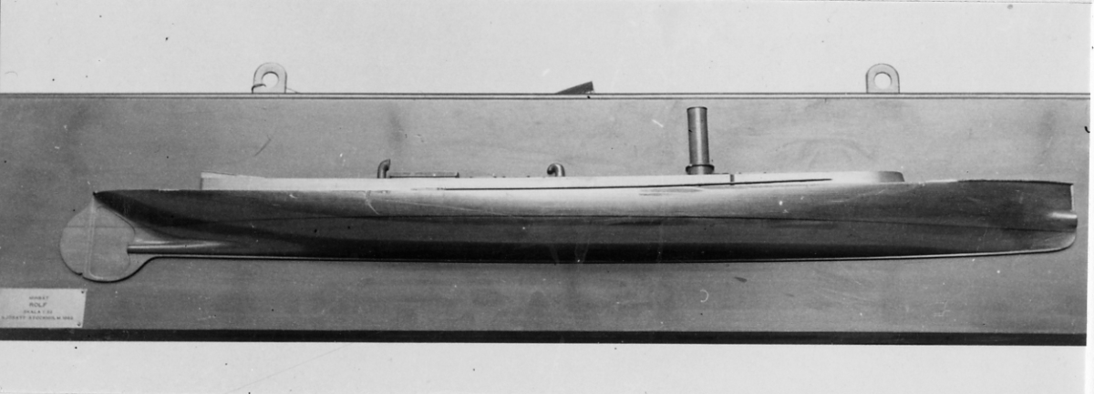 Photo of a 1:32 model of the Swedish torpedo boat Rolf that entered service in 1882. Original at Sjöhistoriska Museet in Sweden.